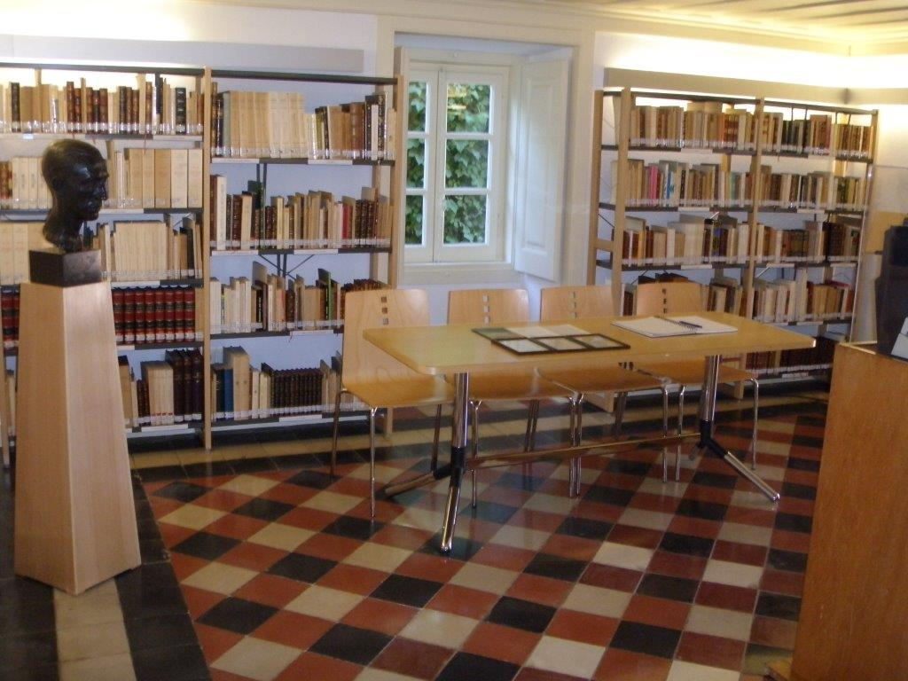 Auditório-Biblioteca Anrique Paço d'Arcos